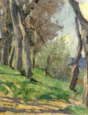 Late summer landscape by Rudolf Thost (German, 1868 - 1921)